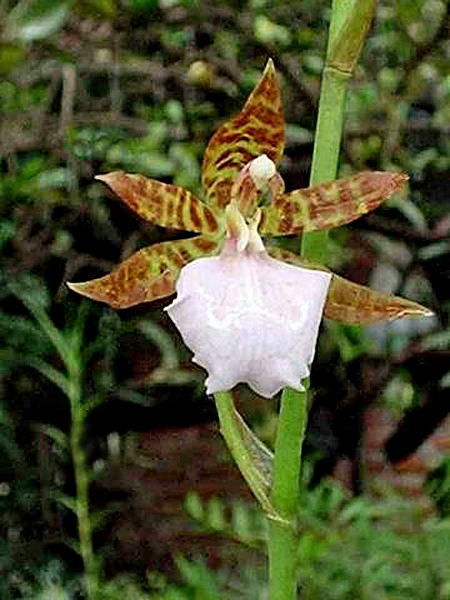 A work released per the GNU Free Documentation License by: Martín Javier Battiti de Tegucigalpa, Honduras